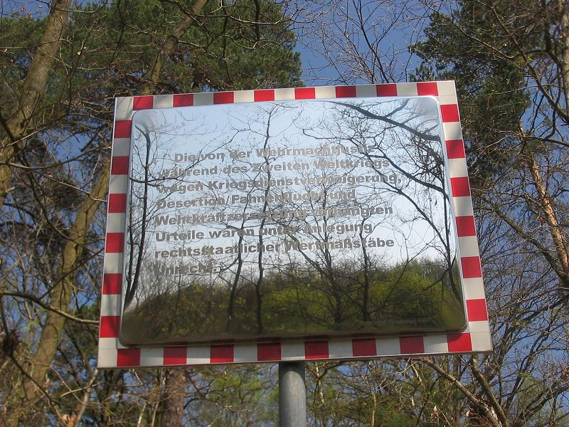 The Murellenberge, the Murellenschlucht and the Schanzenwald (german for: Murellenhill, Murellenravine, Sconceforest) are a hill-landscape from the last gacial period in Berlin-Ruhleben in the district Charlottenburg-Wilmersdorf. It is part of the Teltow-Plateau at its northside in Berlin. In the hills there is the memorial Denkzeichen zur Erinnerung an die Ermordeten der NS-Militärjustiz am Murellenberg (german for: Thought-Signs to commemorate the victims of Nazi military justice at Murellenberg), created by the argentine, in Berlin living, artist Patricia Pisani in 2002.